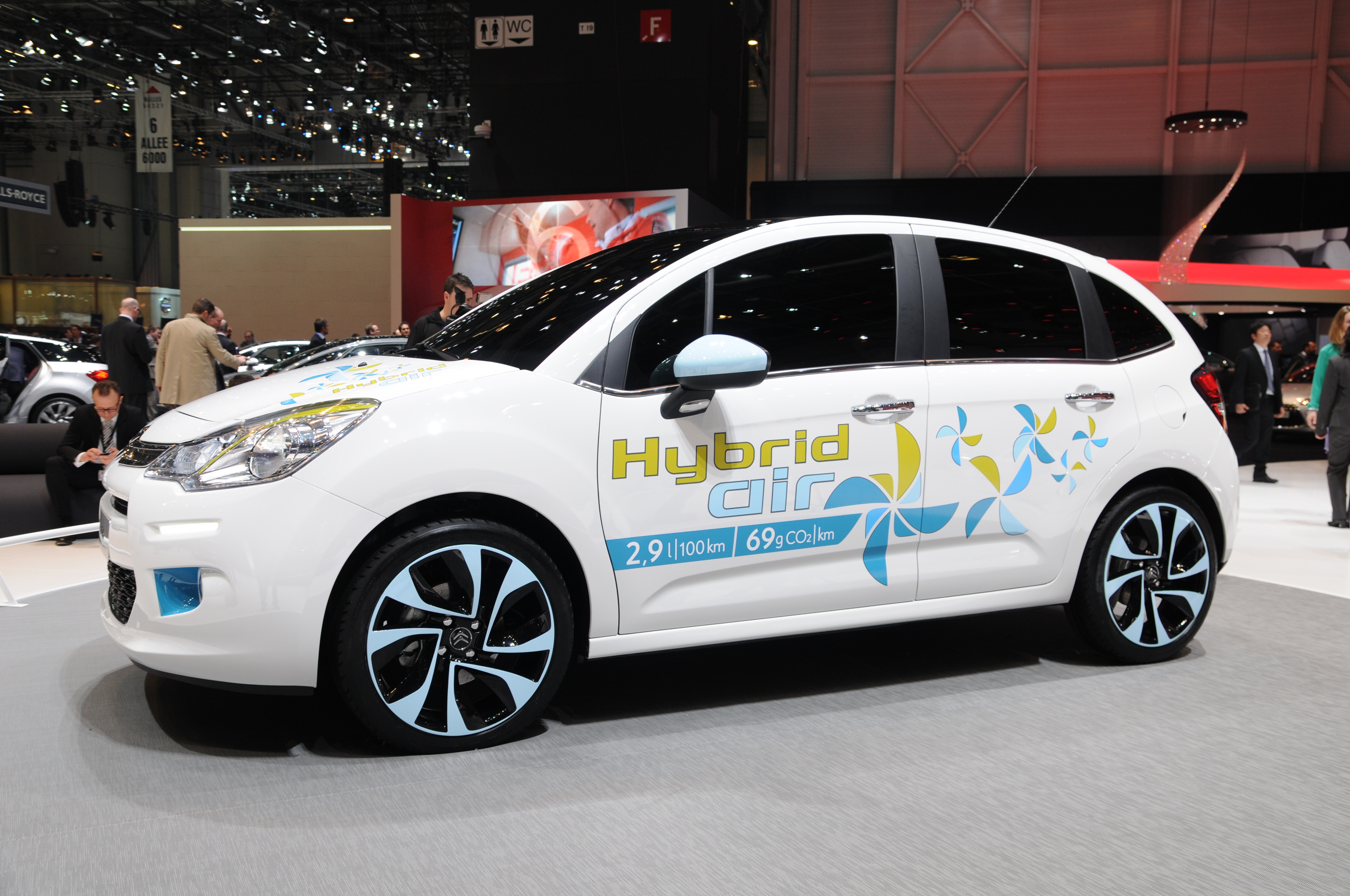 PSA Peugeot Citroën Hybrid Air concept exhibited at the Geneva Motor Show 2013 (photos taken on the first press day)